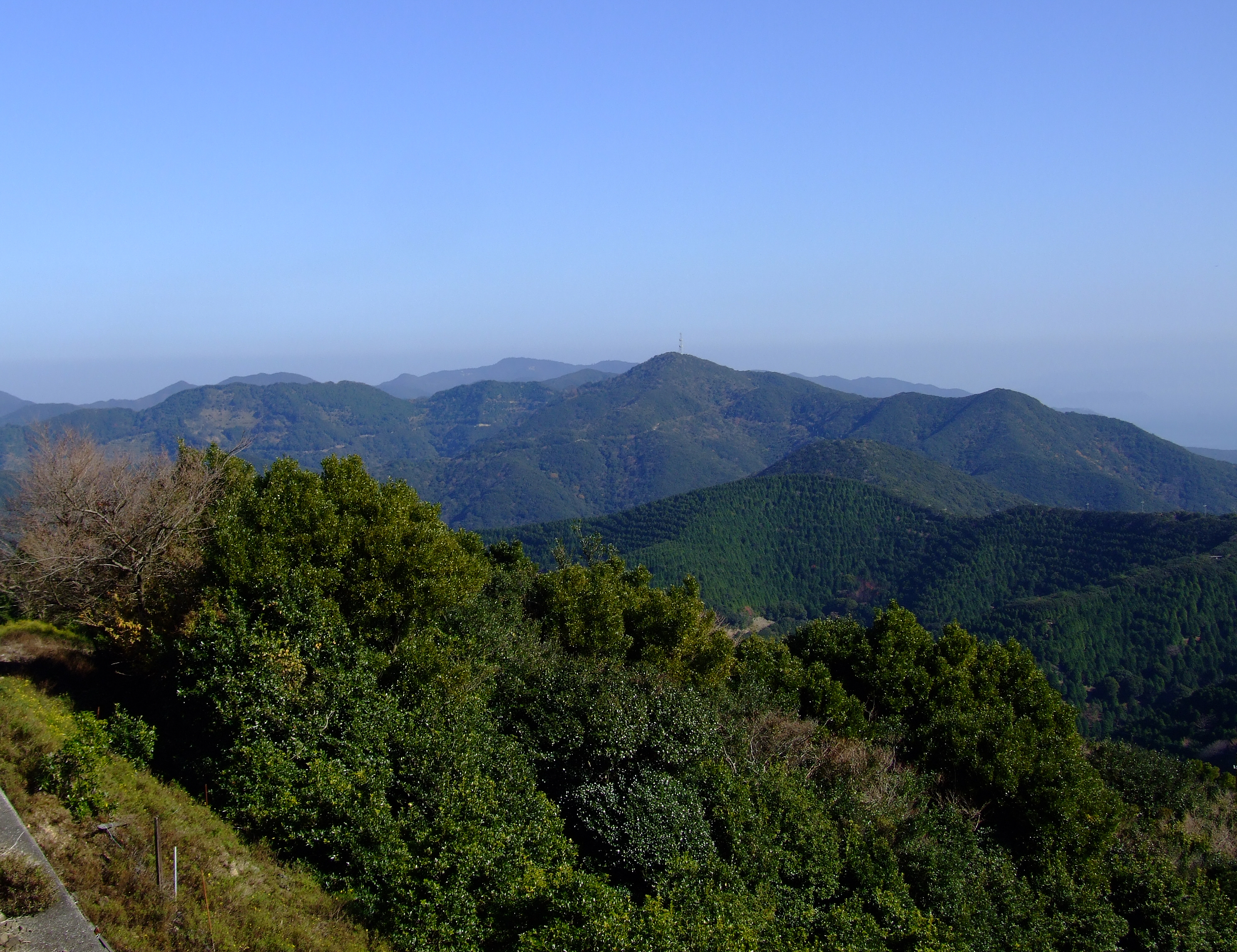 Yuzuruha Mountains on the Awaji Island in Hyogo Prefecture, Japan